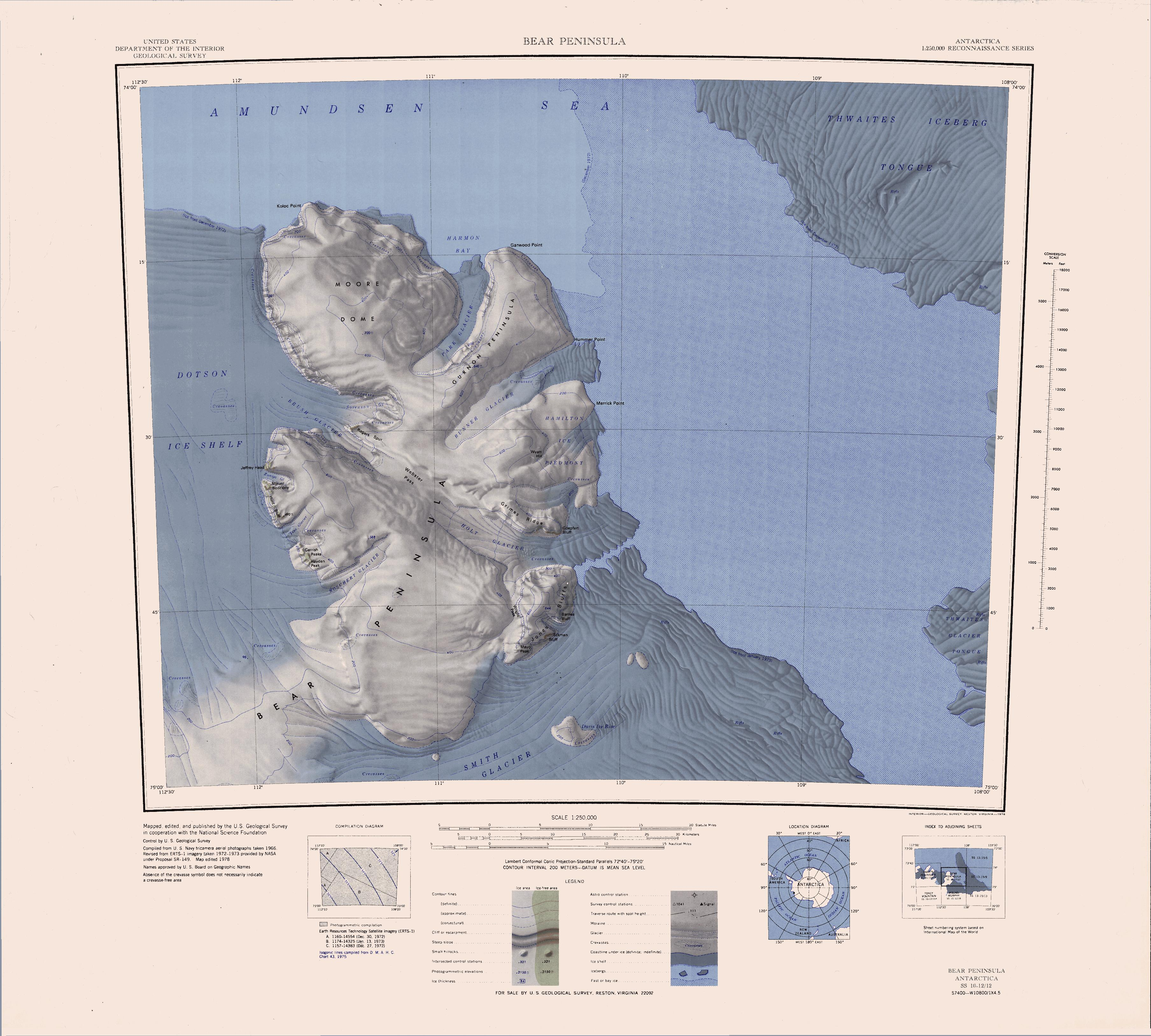 1:250,000-scale topographic reconnaissance map of the Bear Peninsula area from 108°-112°30'W to 74°-75°S in Antarctica. Mapped, edited and published by the U.S. Geological Survey in cooperation with the National Science Foundation.